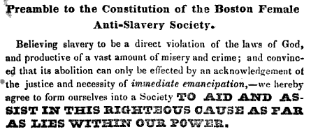 Detail of constitution of the Boston Female Anti-Slavery Society